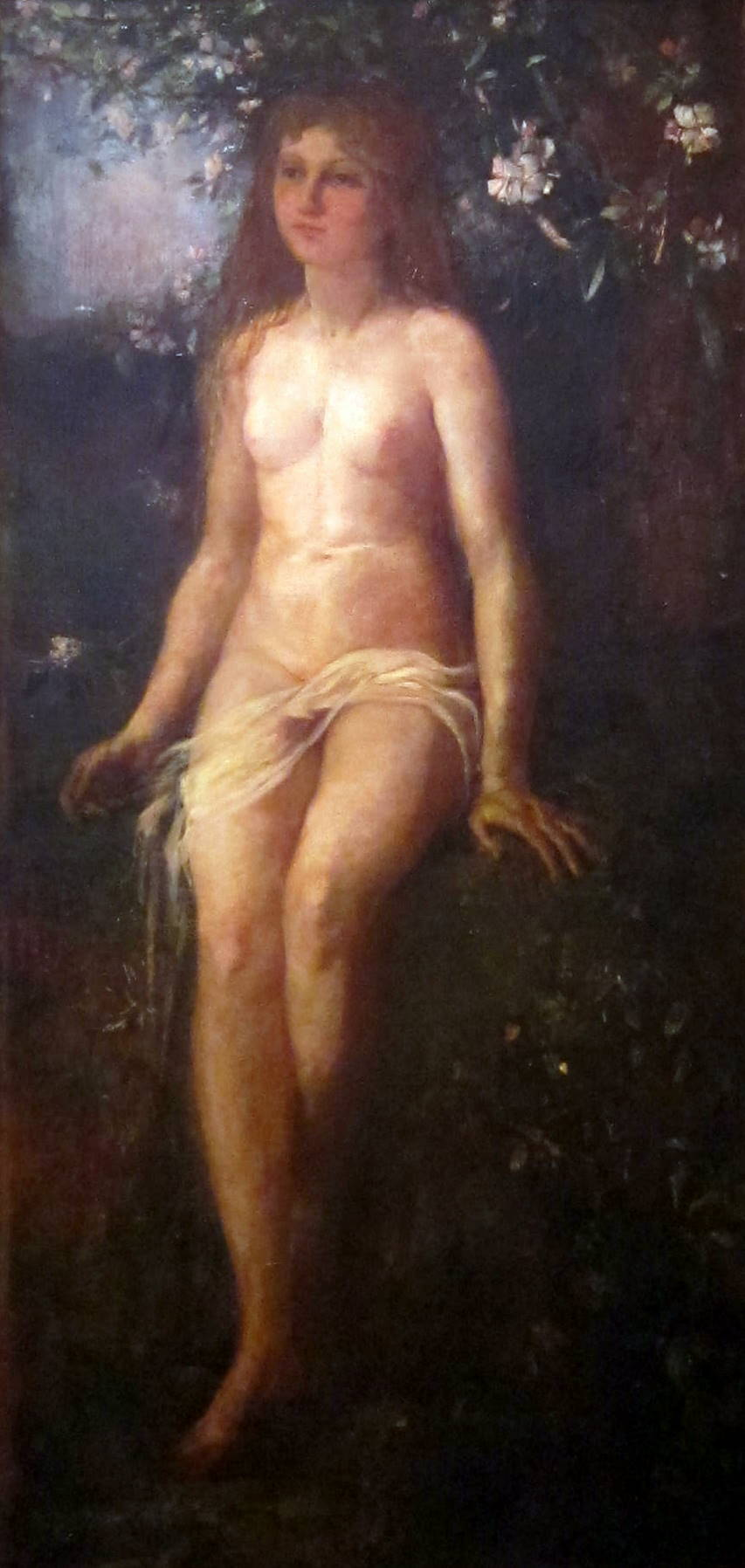 The Golden Age